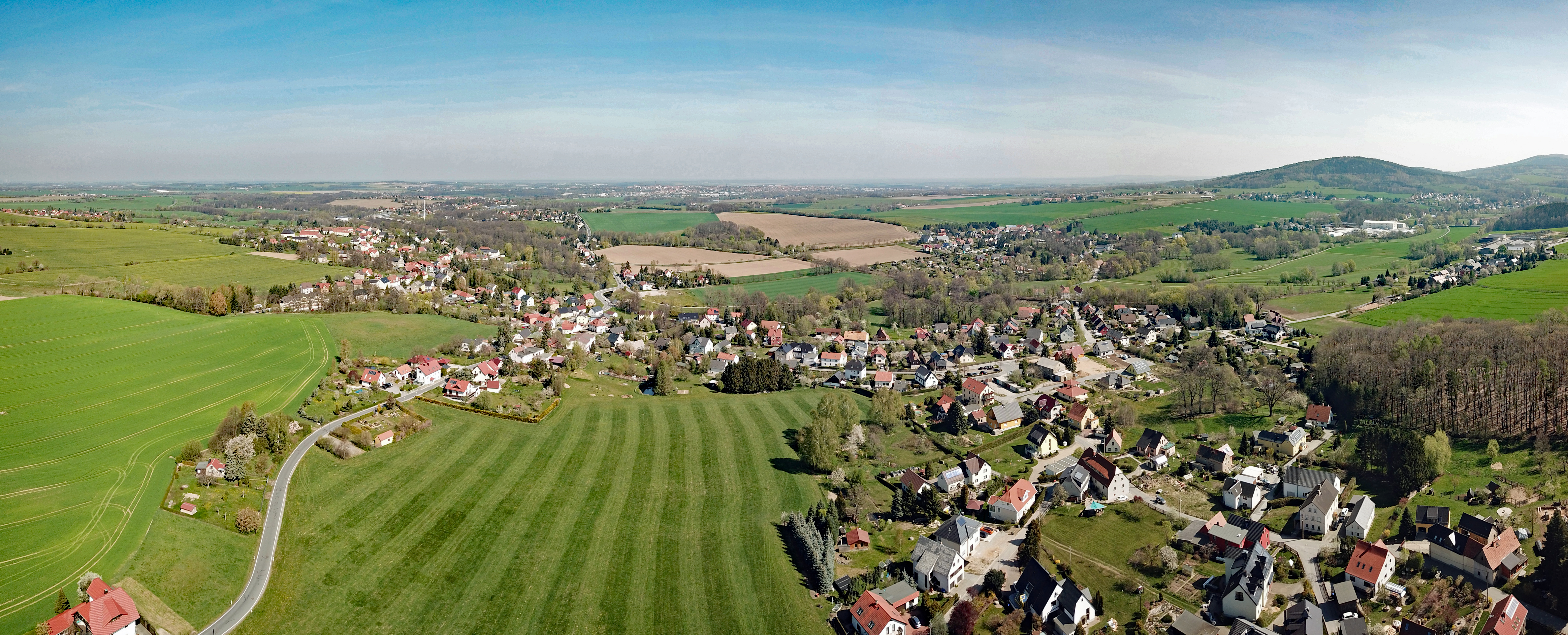 Mönchswalde and Kleindöbschütz, Obergurig, Saxony, Germany Hornjoserbsce: Powětrowy wobraz Mnišonca a Małych Debsec